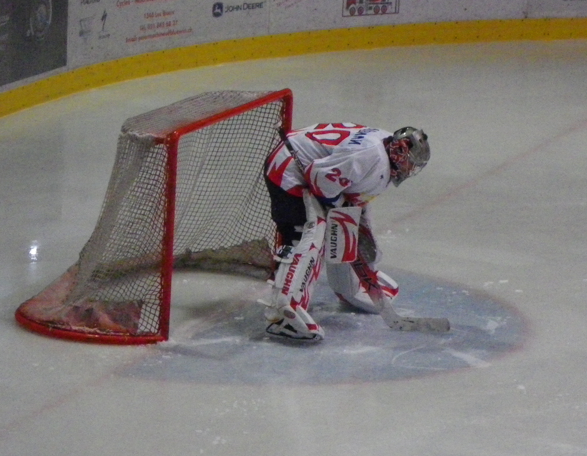 Georgi Gelashvili, russian ice hockey player with Metallurg Magnitogorsk